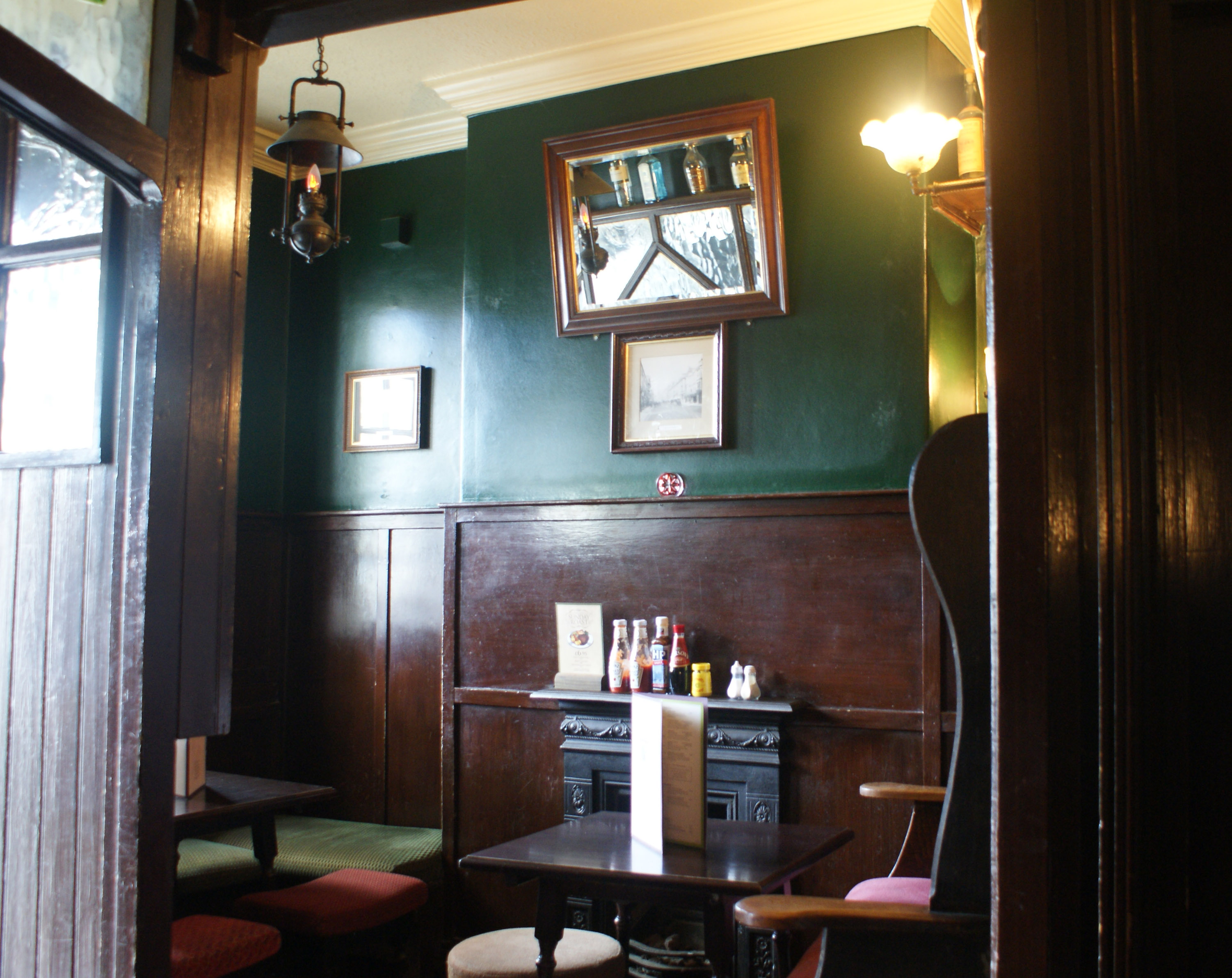 The Eagle and Child Pub, famous pub of the 'Inklings', C. S. Lewis, Tolkien etc... One expects dwarves singing about gold, but it was mostly German tourists. Excellent beef, and a lovely pub, though.